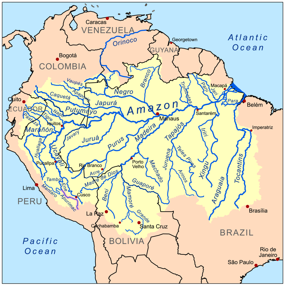 This is a map of the Amazon River drainage basin, with the Apurimac River highlighted.